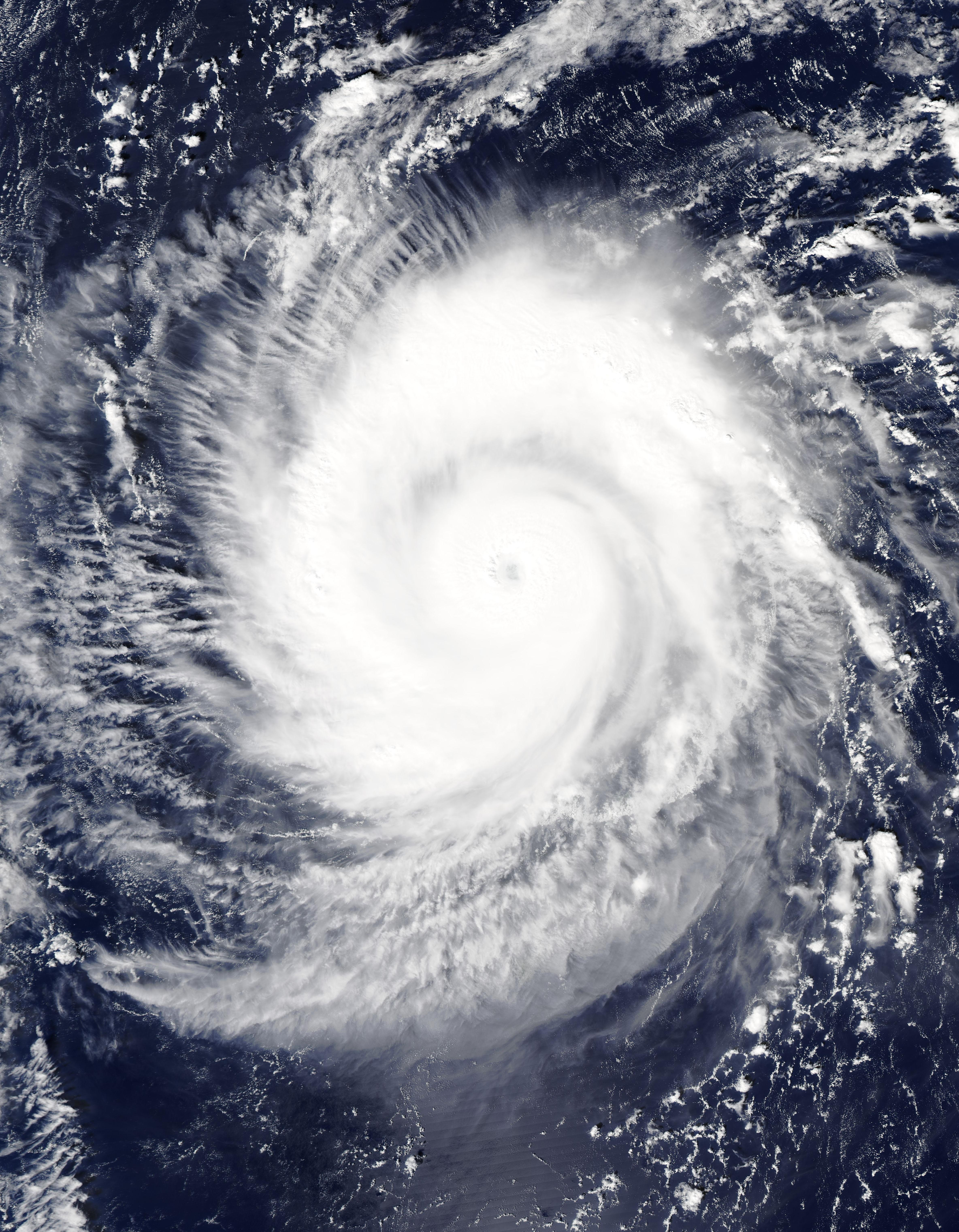 Typhoon Bualoi (22W) on 22 October 2019